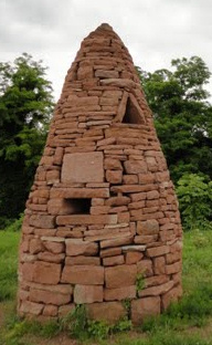 Land Art (Bouxwiller) in Alsace